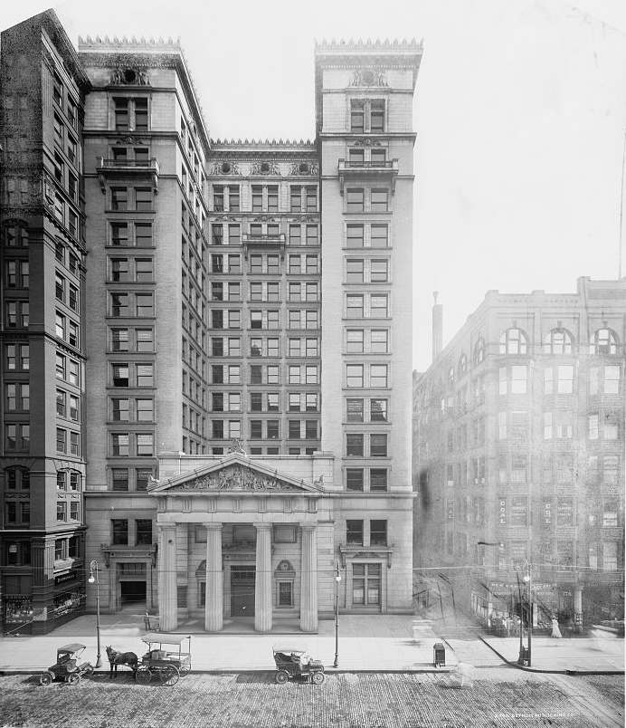 The Citizens Building in downtown Cleveland, Ohio